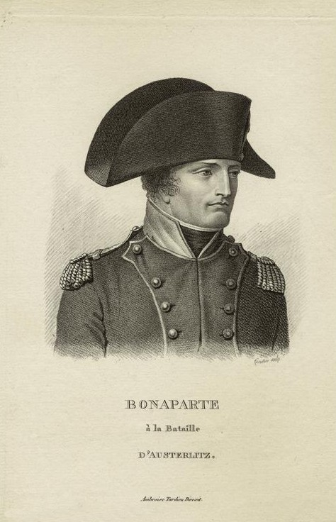 Napoleon Bonaparte (1769-1821)